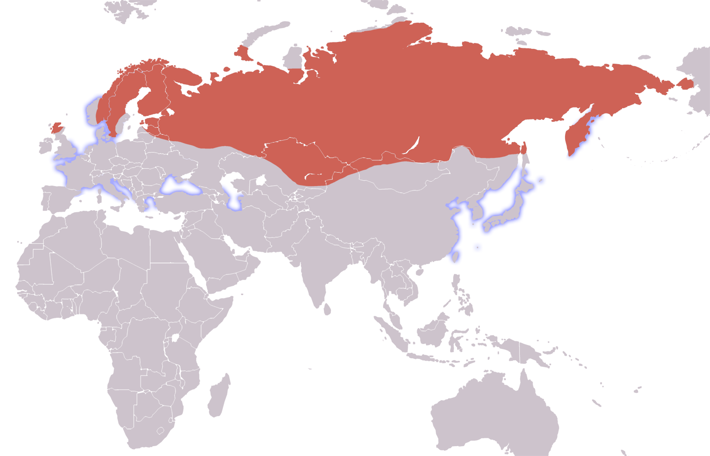 distribution map of Gavia arctica